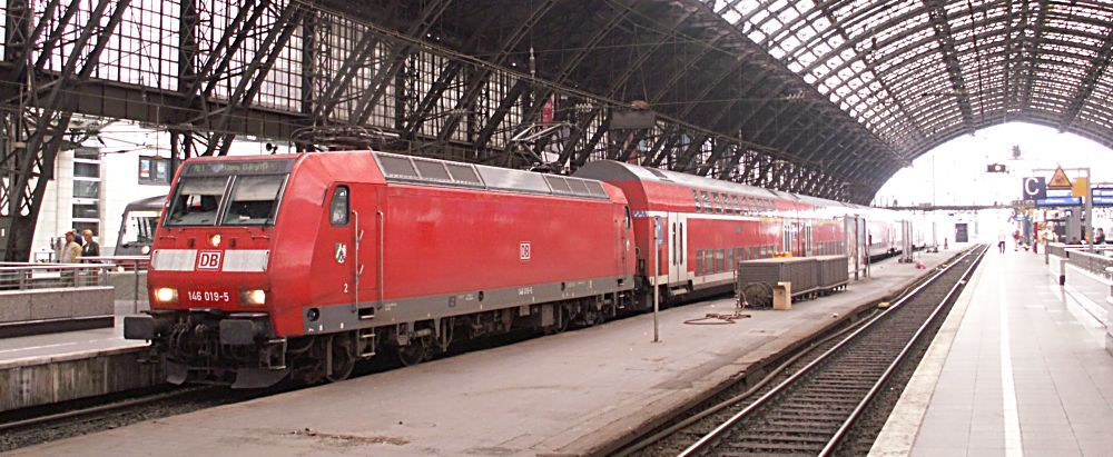 hbf koeln , photographed by me , michael bienick